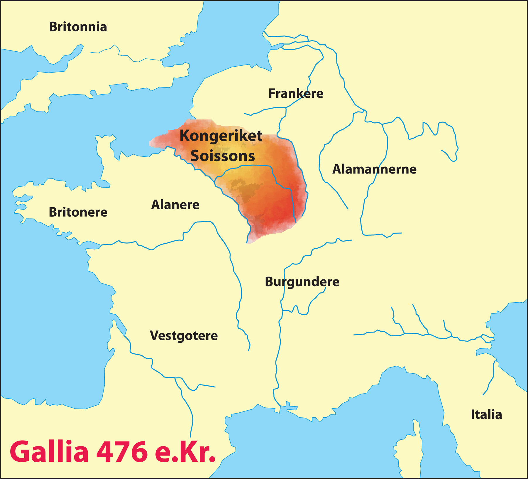 Map of Gaul with Kingdom of Soissons highlighted. Text in Norwegian. Drawn from this